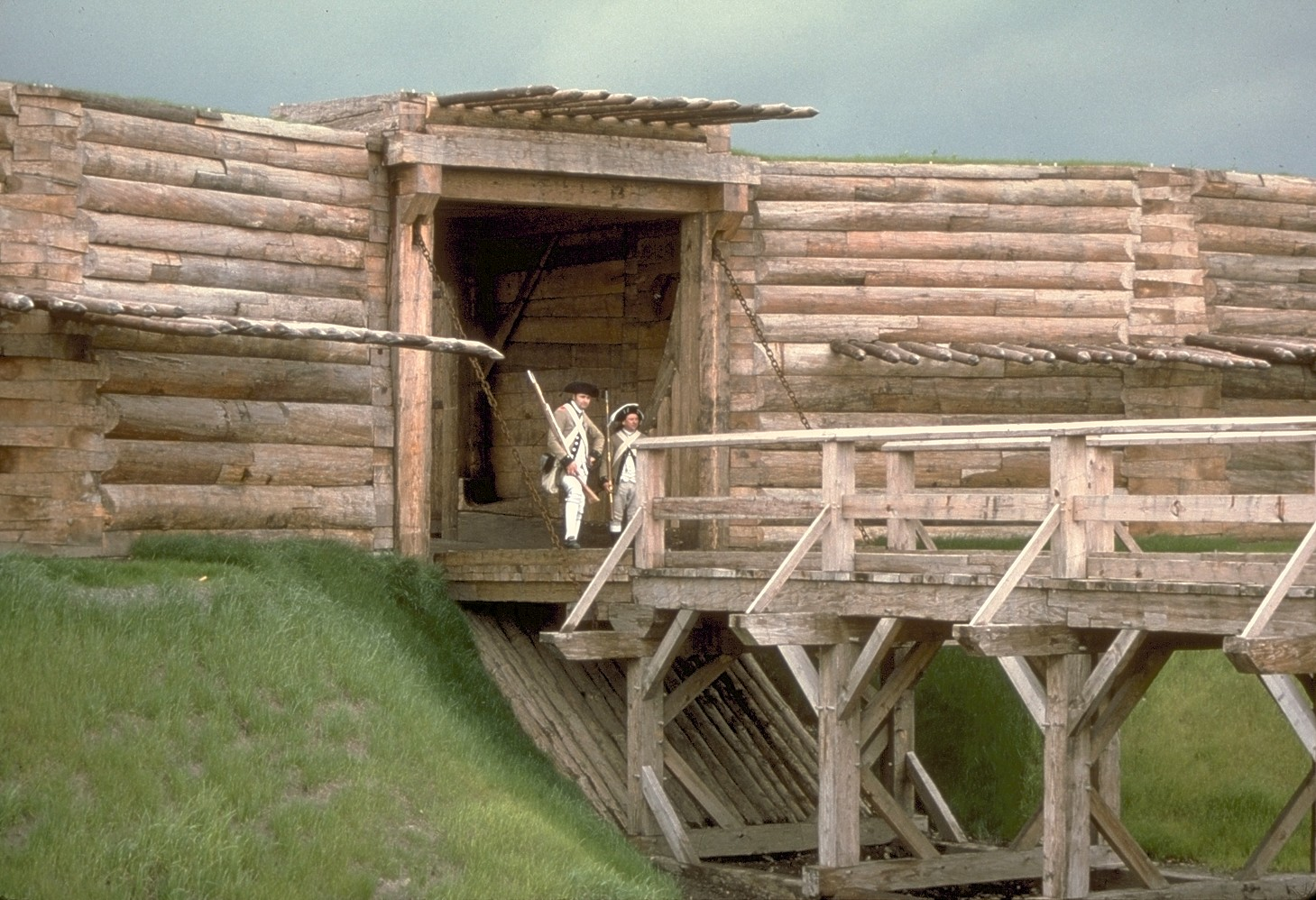 Reenactment at Fort Stanwix National Monument, Rome, New York, USA